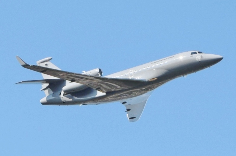 Hungarian Air Force 606 Dassault Falcon